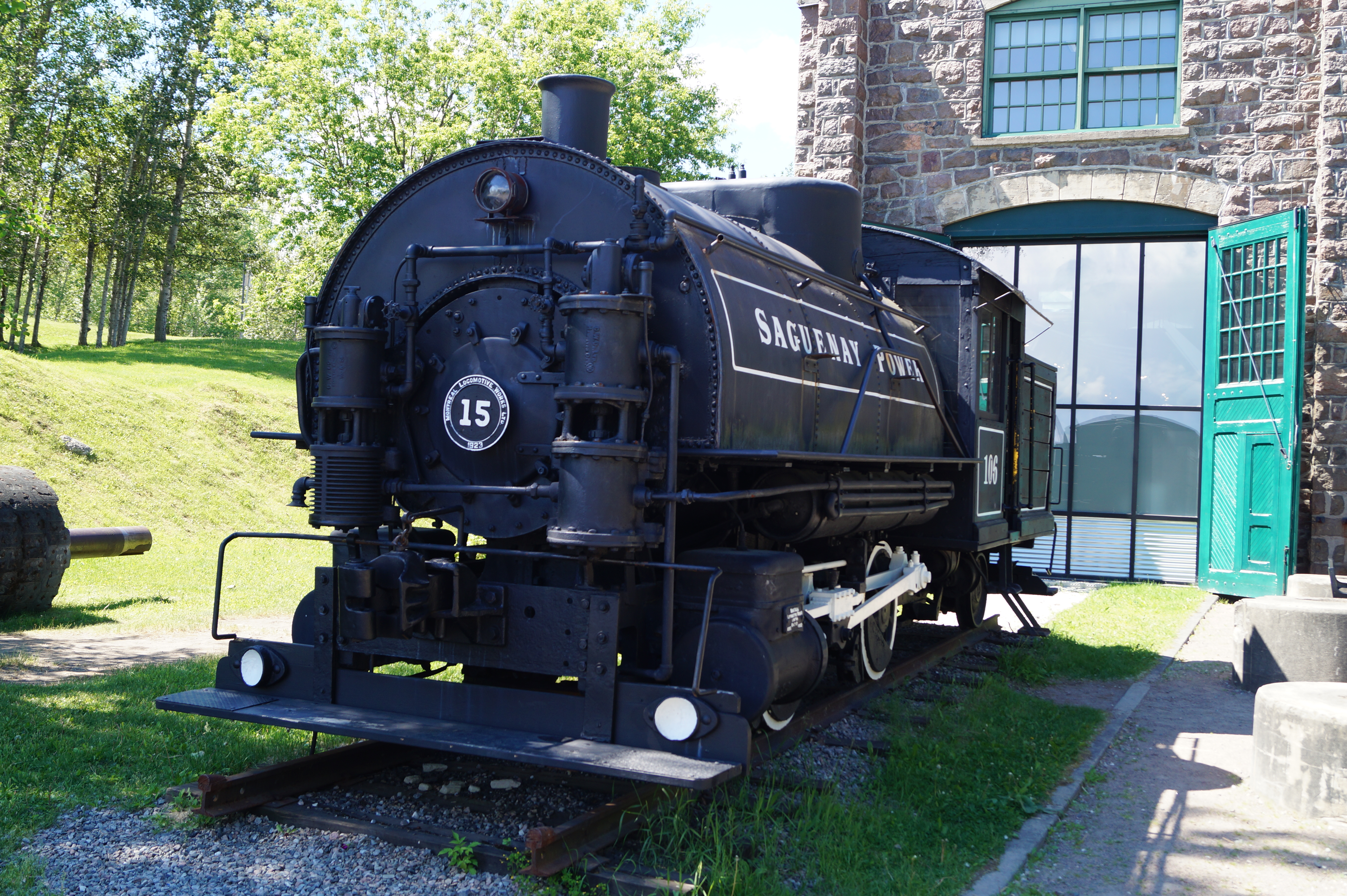 Steam locomotive of the 'Compagnie de chemin de fer Roberval-Saguenay', an Alcan subsidiary, exhibited at La Pulperie in Chicoutimi